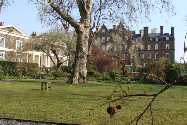 Gardens at Lloyd Square